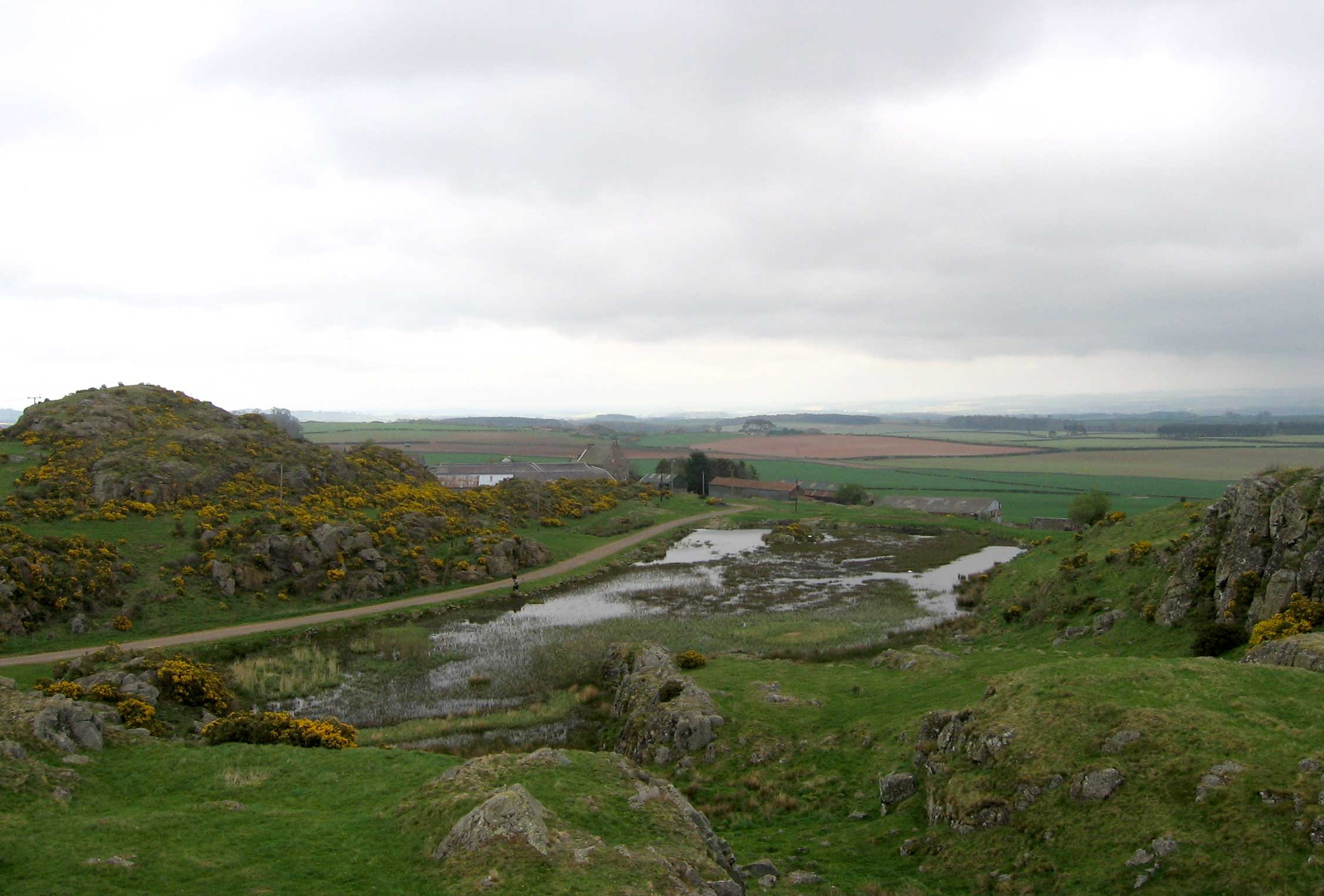 Smailholm Tower, Scotland, view from the tower to the east across the lochan to Sandyknowe Farm, childhood home of Walter Scott.